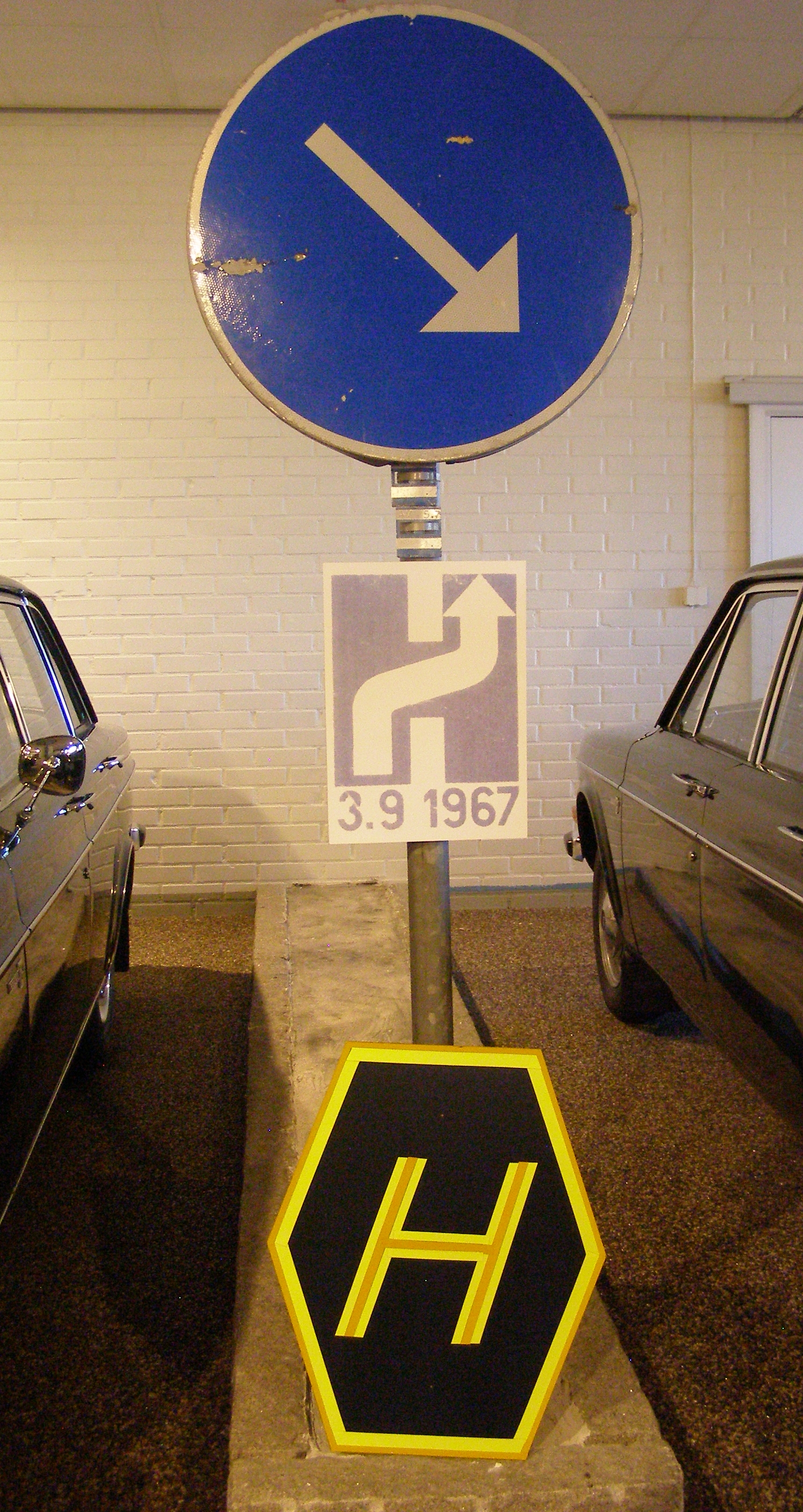 Gothenburg - Volvo Museum